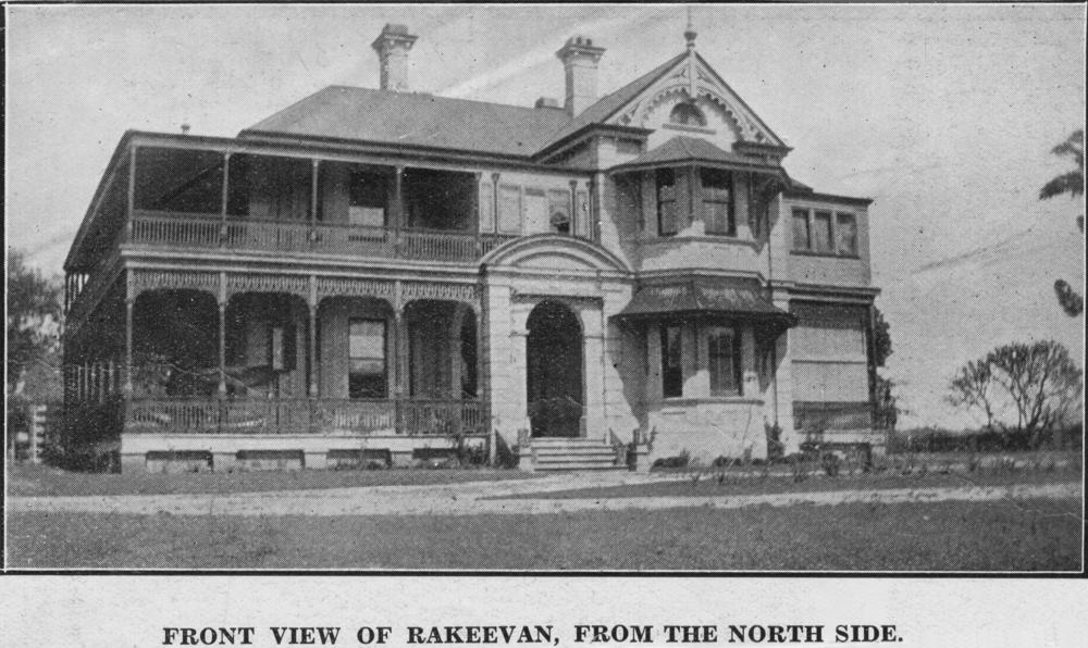 Front view of the gracious residence Rakeevan, in Graceville, taken from the north side, ca. 1931. In 1895, John Ferguson MLA, a Rockhampton parliamentarian and a major shareholder in the Mt Morgan Mine company, purchased the property, which became the home of his daughter and son-in-law, Mr A H Chambers, who was the manager of the Union Bank and changed the name of the house to Rakeevan, after his family home in Ireland.